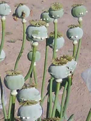 spanish opium puppies 3 seconds after cut.